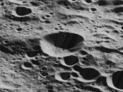 Oblique view of Shatalov crater, on the far side of the moon, facing west